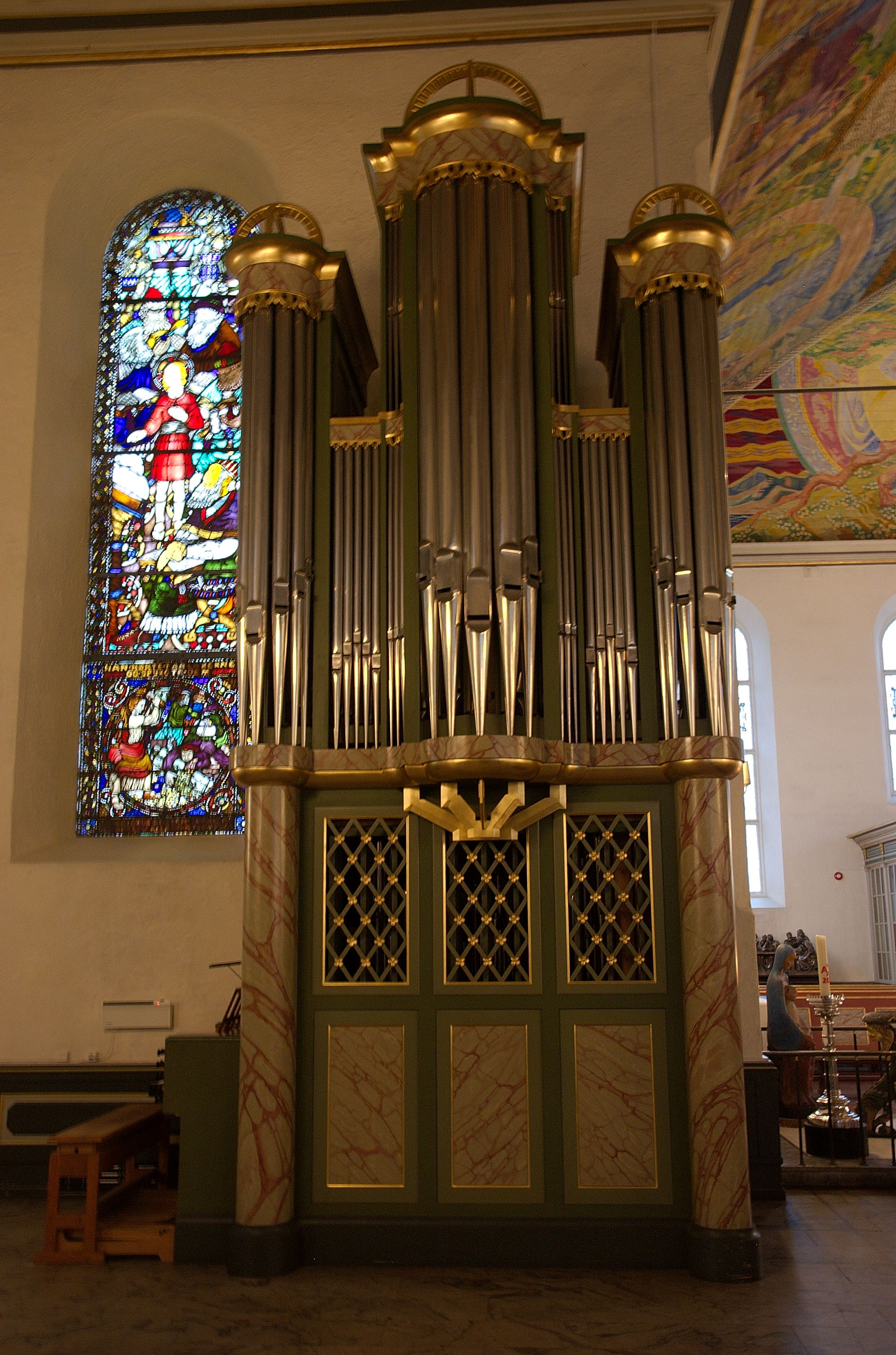 Oslo domkirke (Oslo Cathedral). Organ in the choir from 1996.